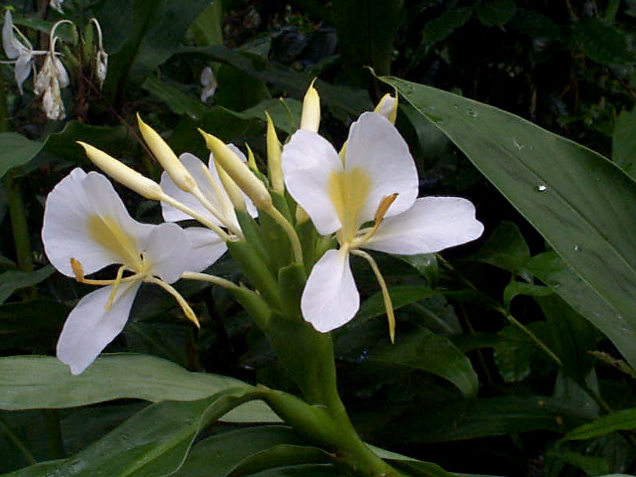 mine